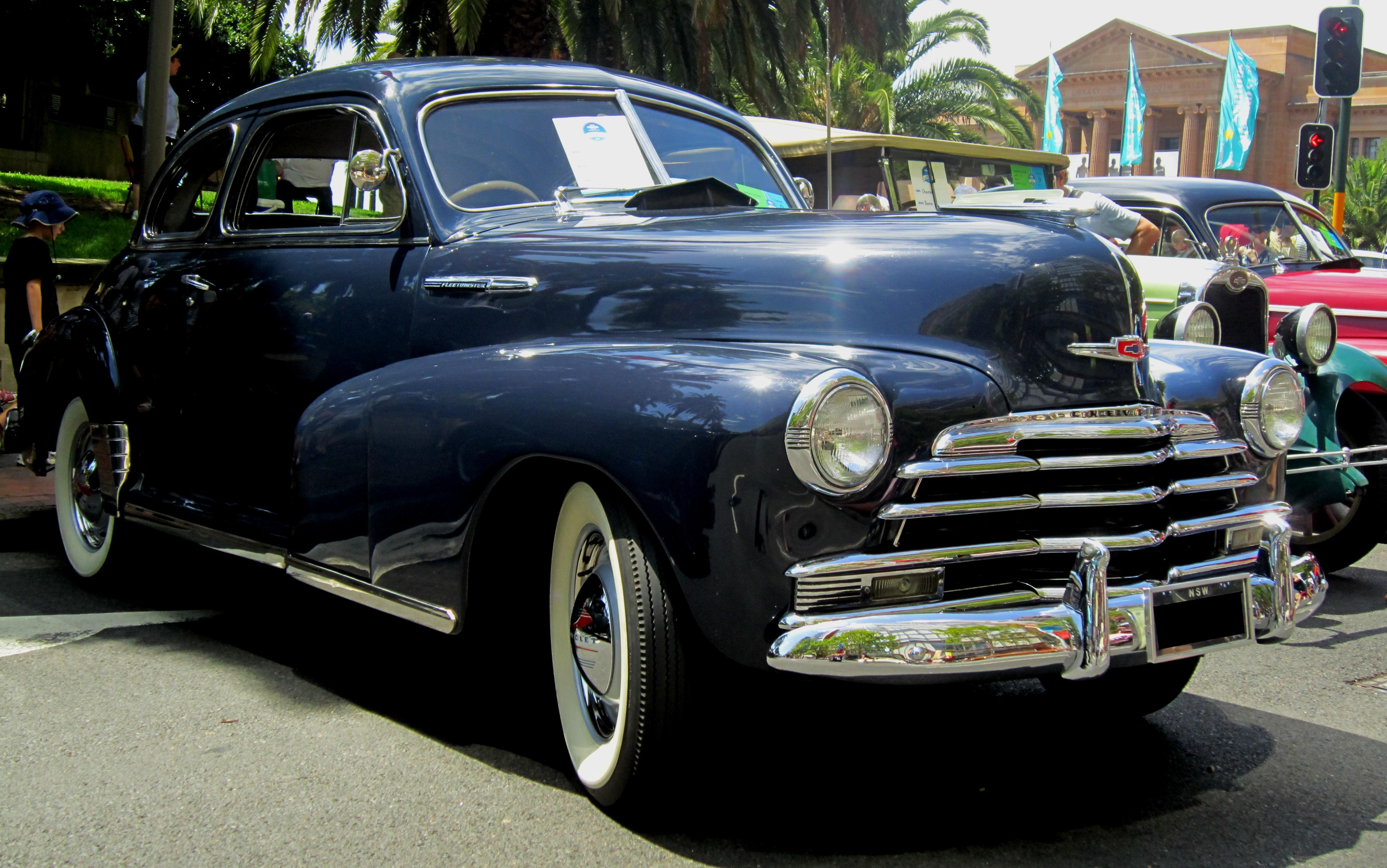 1947 Chevrolet Fleetmaster Coupe. While your here, you can also check out the video footage from NRMA Motorfest 2011, featuring just some of the various models on display, but perhaps also providing a reason to come along to the 2012 NRMA Motorfest, if you werent able to make 2011 NRMA Motorfest. You can check out the footage here at; NRMA Drivers Seat